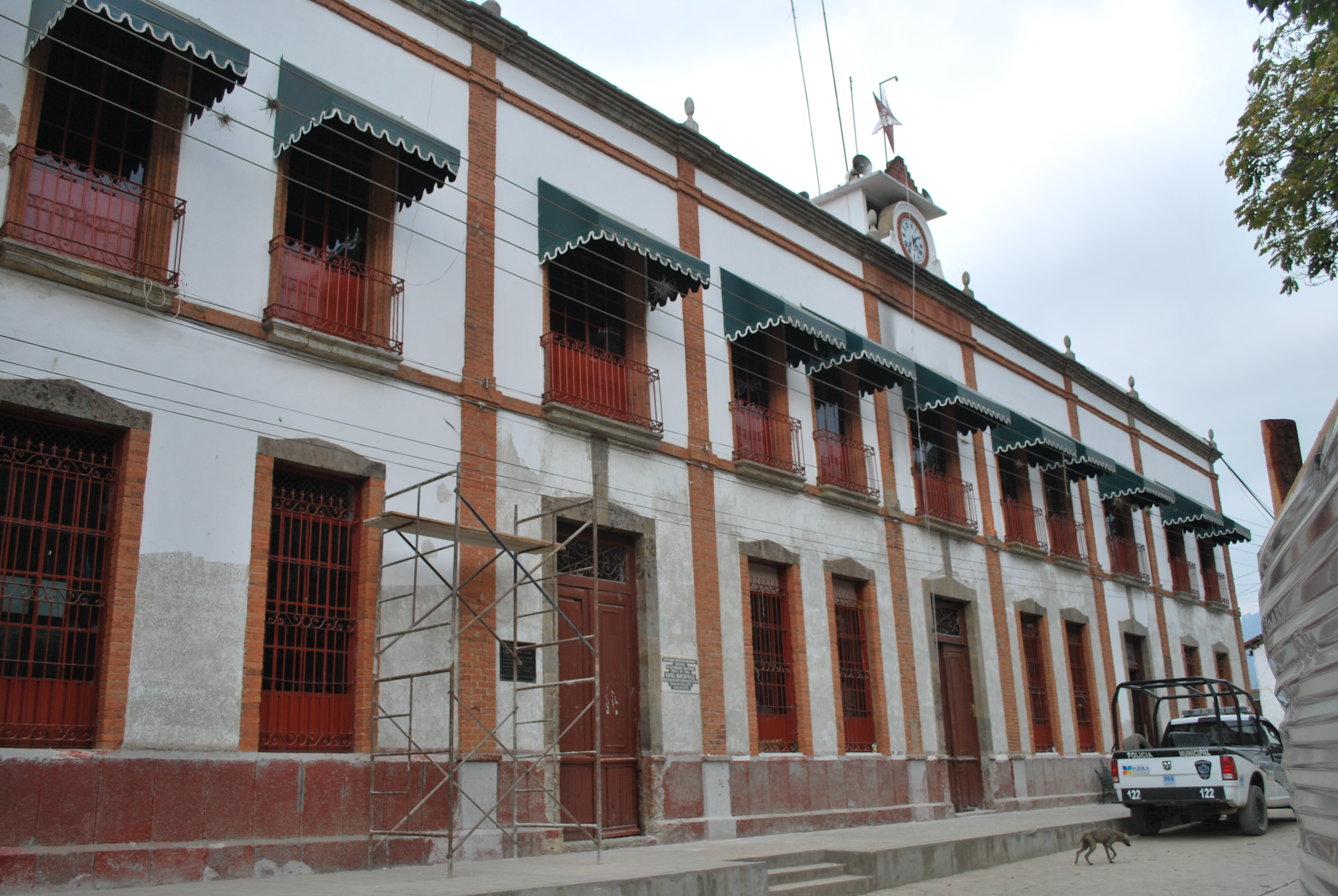 Municipal palace of Pahuatlan, Puebla, Mexico